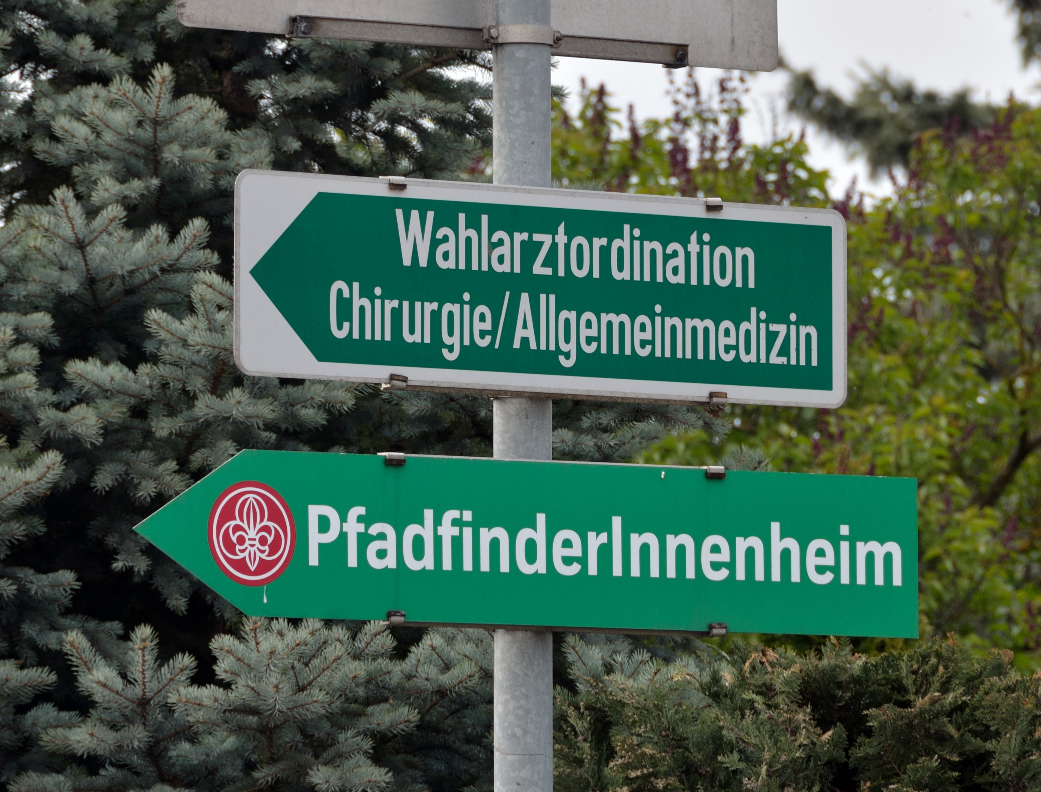 Fingerpost for the scouting home at Linzer Straße, Gablitz, Lower Austria. Mind the spelling using the medial capital (CamelCase) I to explicitly mean boy scouts and girl scouts.